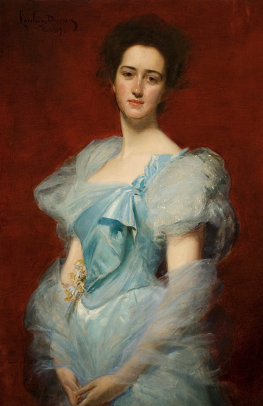 Emily Vanderbilt Sloane (1874-1970) circa 1900